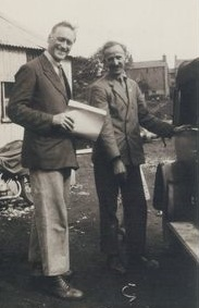 Pierre Ceresole with Jean Inebnit at Brynmawr, GB, 1931.